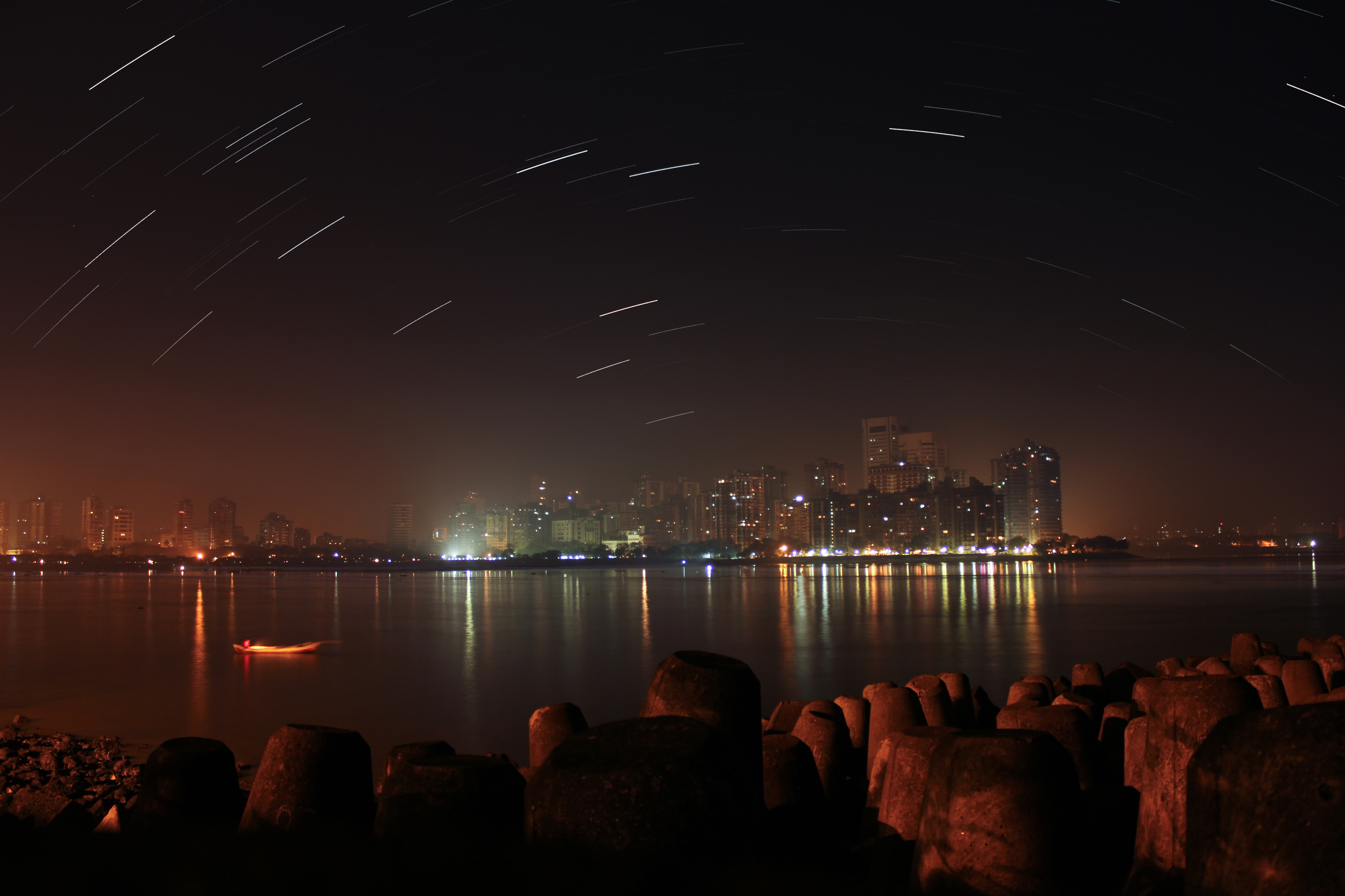 Early morning view of Cuffe Parade and Backbay Reclamation, from Nariman Point. With Star trails